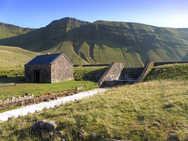 Dam at Llyn y Fan Fach Looking south towards Bannau Sir Gaer.